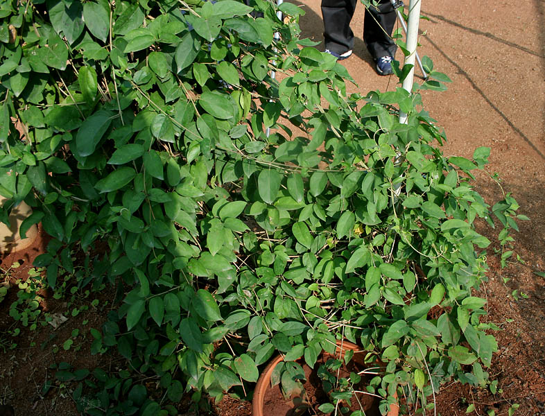 Gymnema sylvestre- Gurmar • Hindi: छॊटा दूधीलता chhota-dudhilata, गुढ़मार gudmar, गुरमार gurmar, मॆढ़शिंगी medhashingi, • Marathi: kavali, bedaki, bedakuli, kalikardori, kaoli • Tamil: adigam, amudupushpam, ayagam, kogilam • Malayalam: chakkarakkolli, madhunasini • Telugu: bodaparta, podapatra • Kannada: kadhasige, sannagera, sannagerasehambu • Oriya: meshasringi • Urdu: gurmarگرمار, gurmar booti, gurmar patta • Sanskrit: ajaballi, अजगंधिनी ajaghandini, कर्णिका karnika, kshinavartta, मधुनसिनी madhunasini - in Herbal Garden, in Rangareddy district of Andhra Pradesh, India.